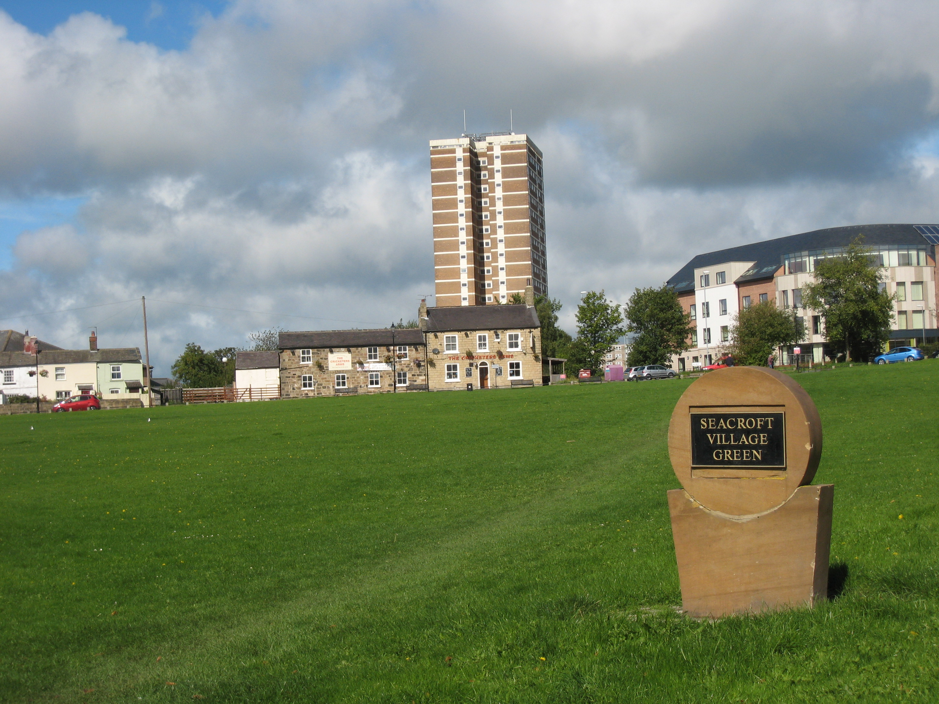 Seacroft Village Green, with sign to that effect. In the distance is the Cricketers Arms pub with high-rise flats behind.